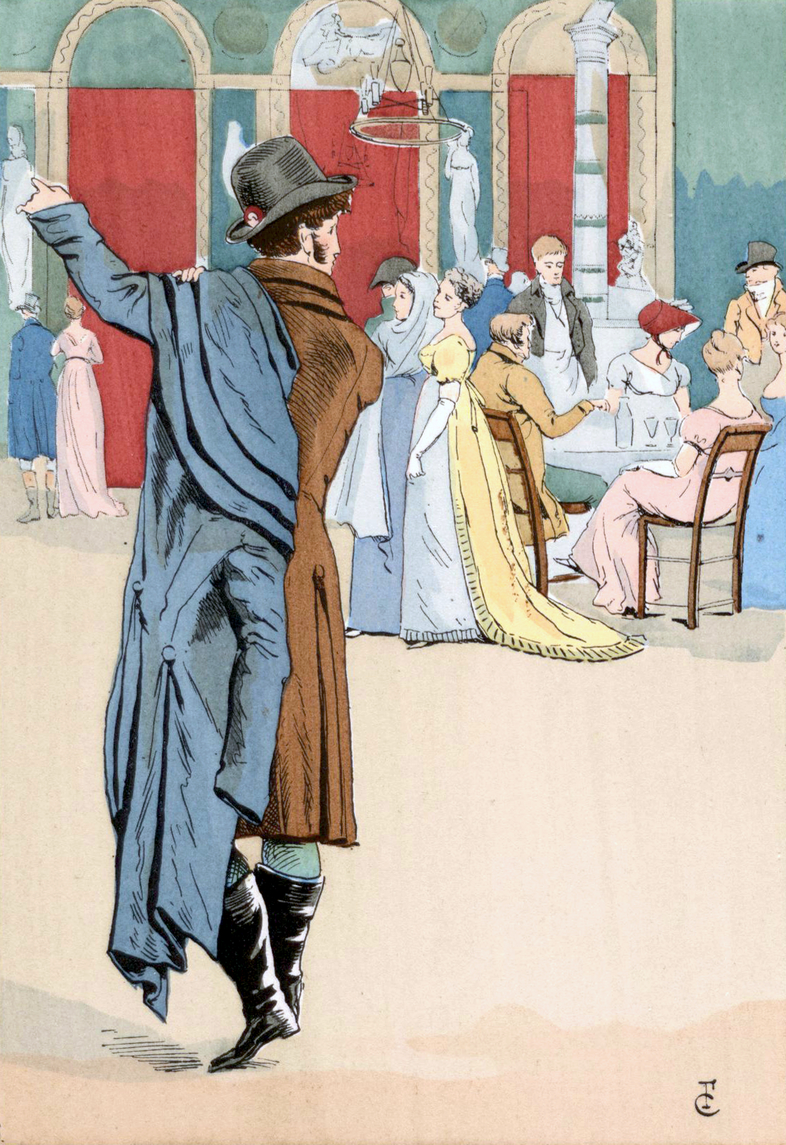 This plate depicts a group of people at Frascati's. The man in the foreground is plainly dressed in dark colors while pastels are favored by the women. Frascati's was a cafe in Paris, described by the text as "'A stream of human beauty', as the expression of the period has it, was still to be seen flowing through the galleries of Greek and Roman antiquities, spreading through the porticos, into the saloons, and smaller chambers, pouring and winding along the garden alleys, and disappearing at last into the kiosks where it was lost to sight. The great mirror at the end of the garden reflected, as in a wonderful prismatic vision, the surging crowd of veiled or turbaned heads of ever-changing couples, each whispering and fondly clasped; while farther off seated at tables in the open air, thirsty nymphs called for creams and tutti frutti and all the various iced compounds then so eagerly consumed."